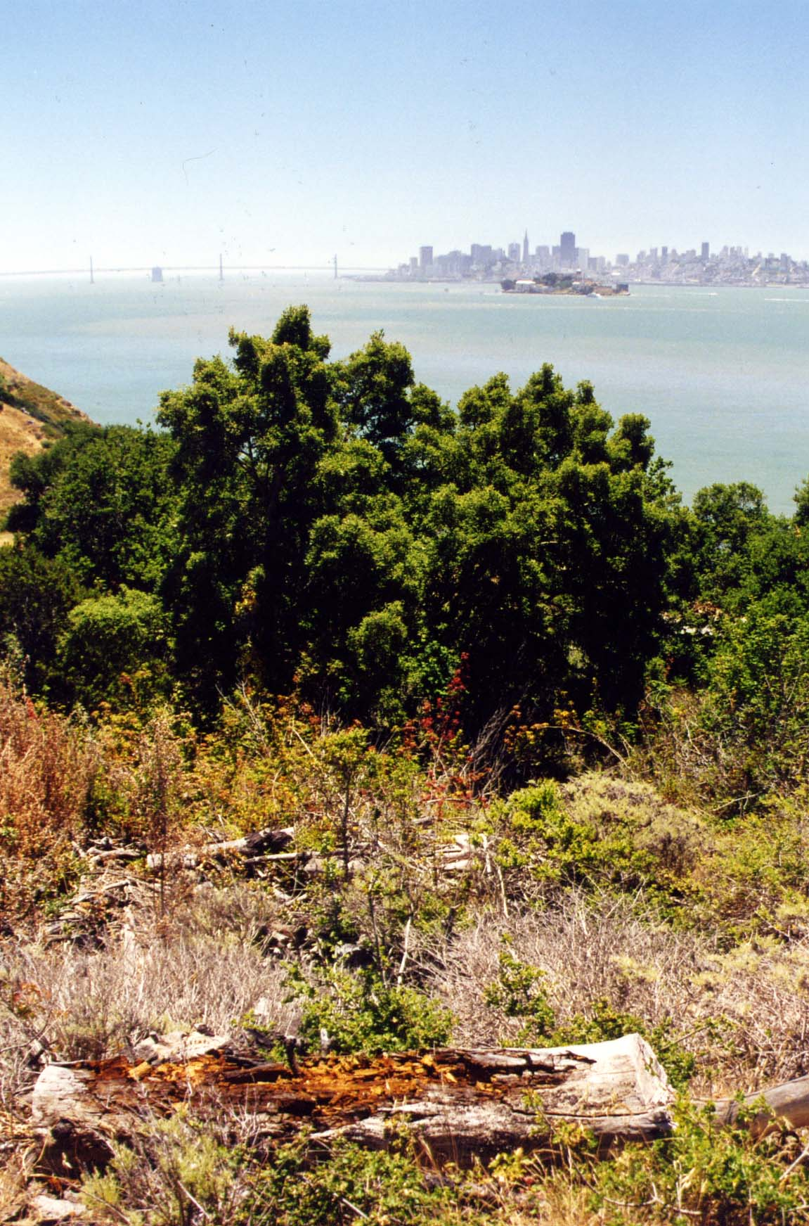 Angel Island State Park & city of SF